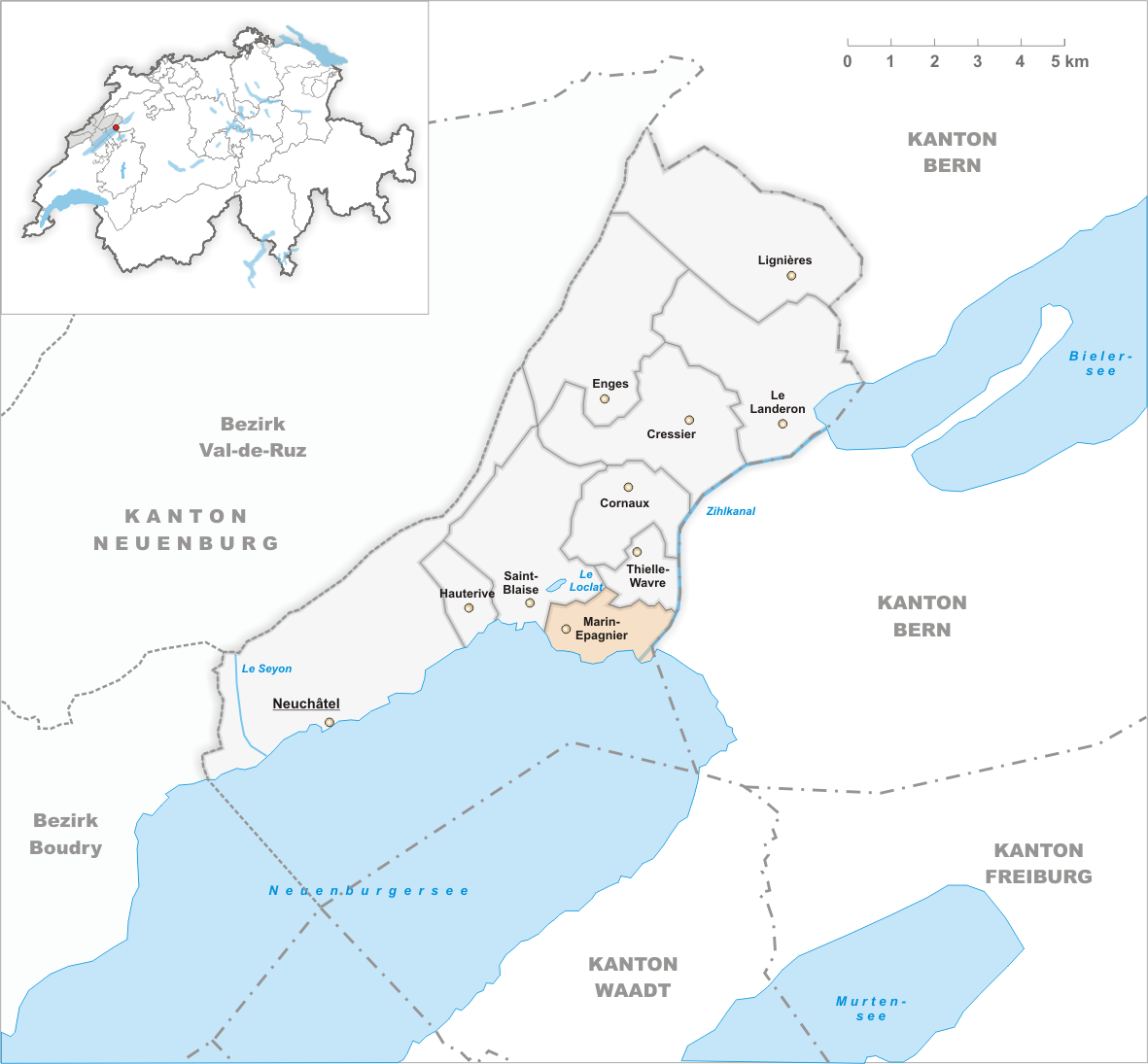 Municipality Marin-Epagnier